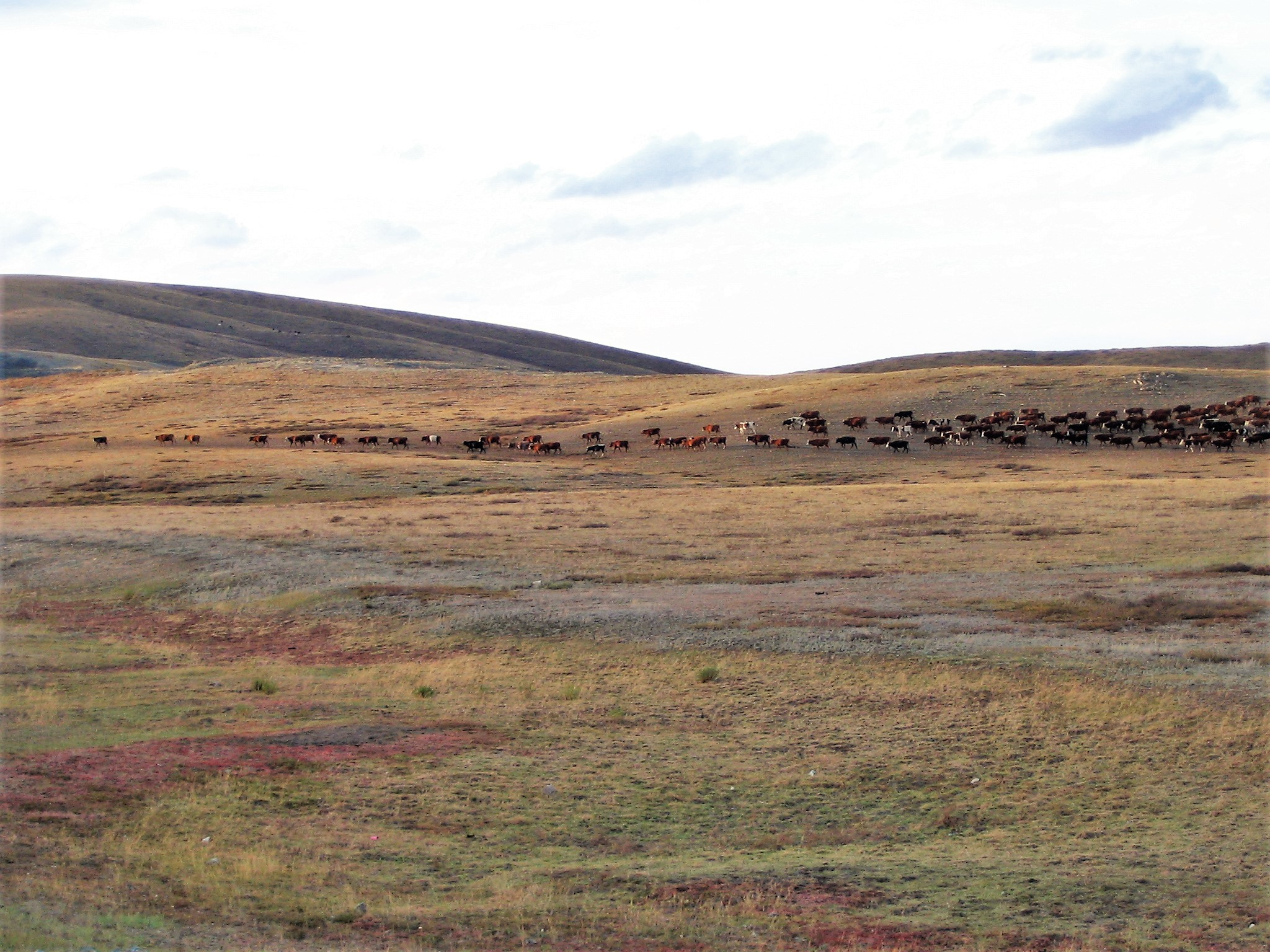 Cattle in Kazakhstan, Qaraghandy Province